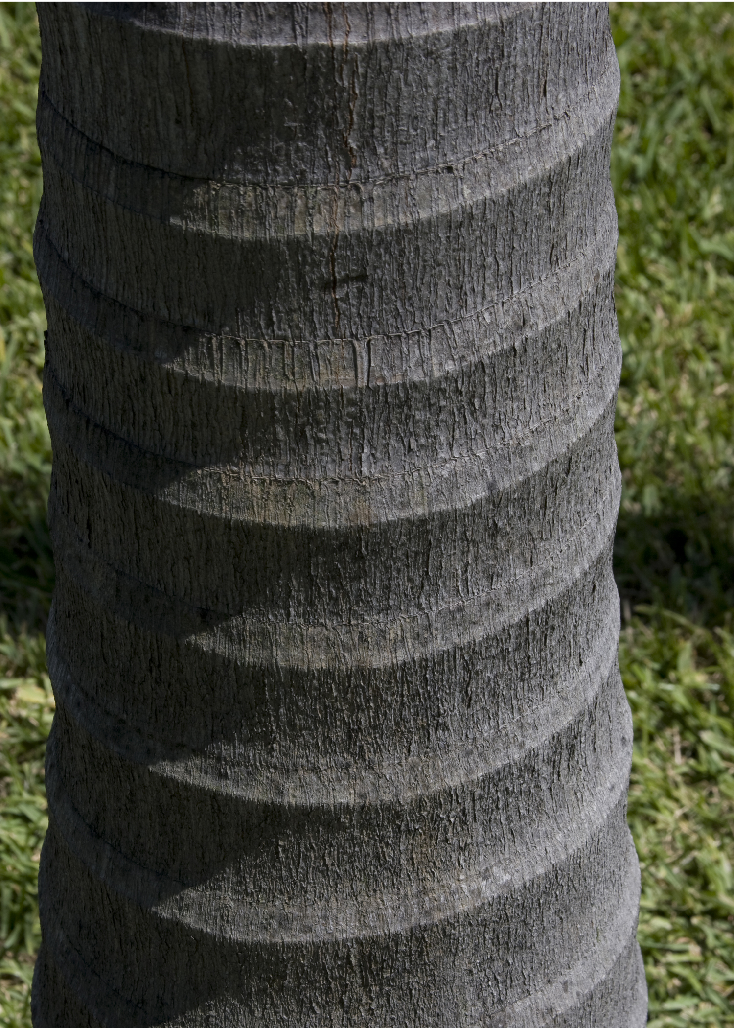 Archontophoenix alexandrae